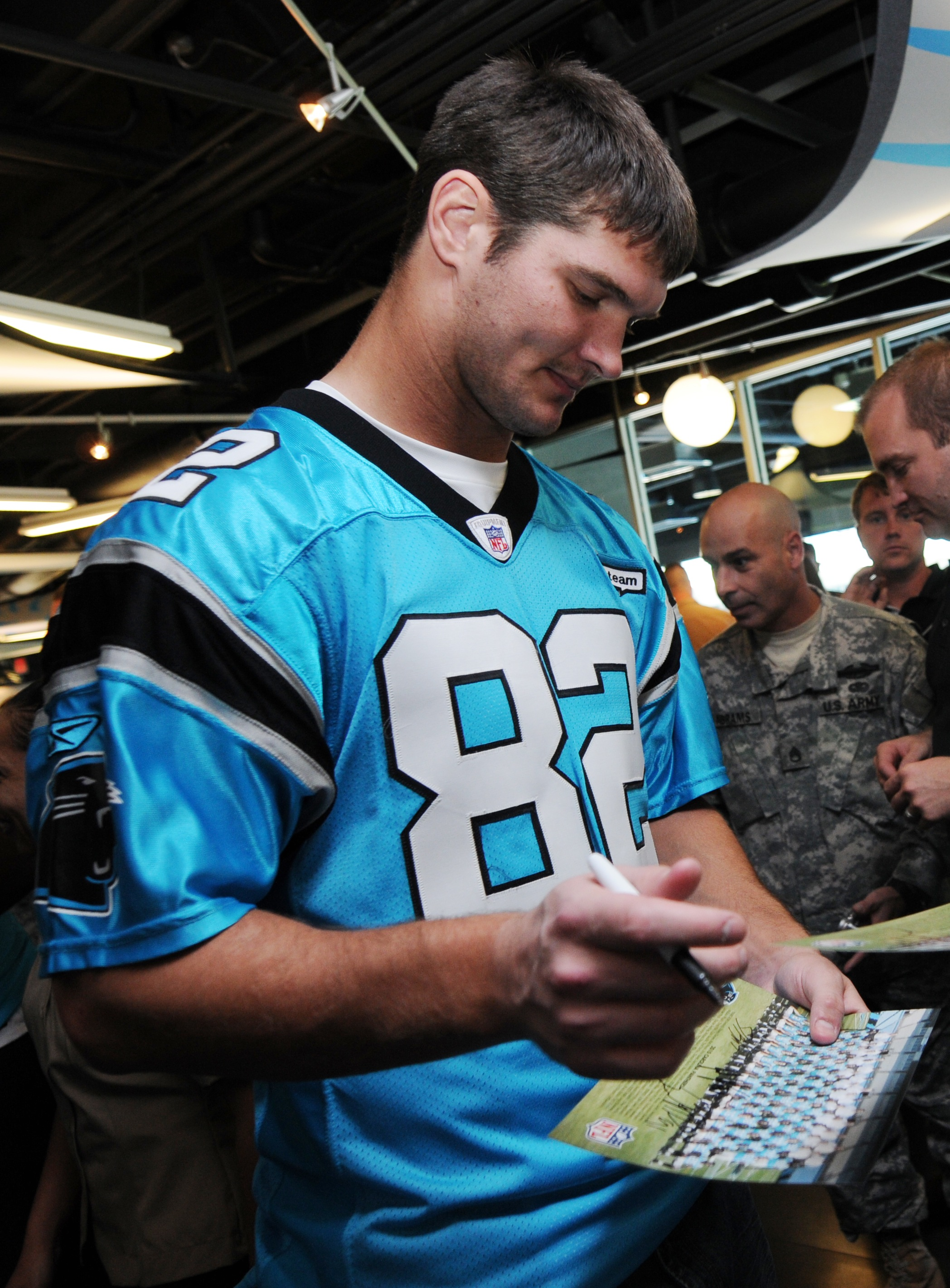 Carolina Panther Gary Barnidge autographs a photo for Senior Airman Kevin Tallmon of the 145th Civil Engineering Squadron, North Carolina Air National Guard at the Pros Vs GI Joe event at Bank of America Stadium.